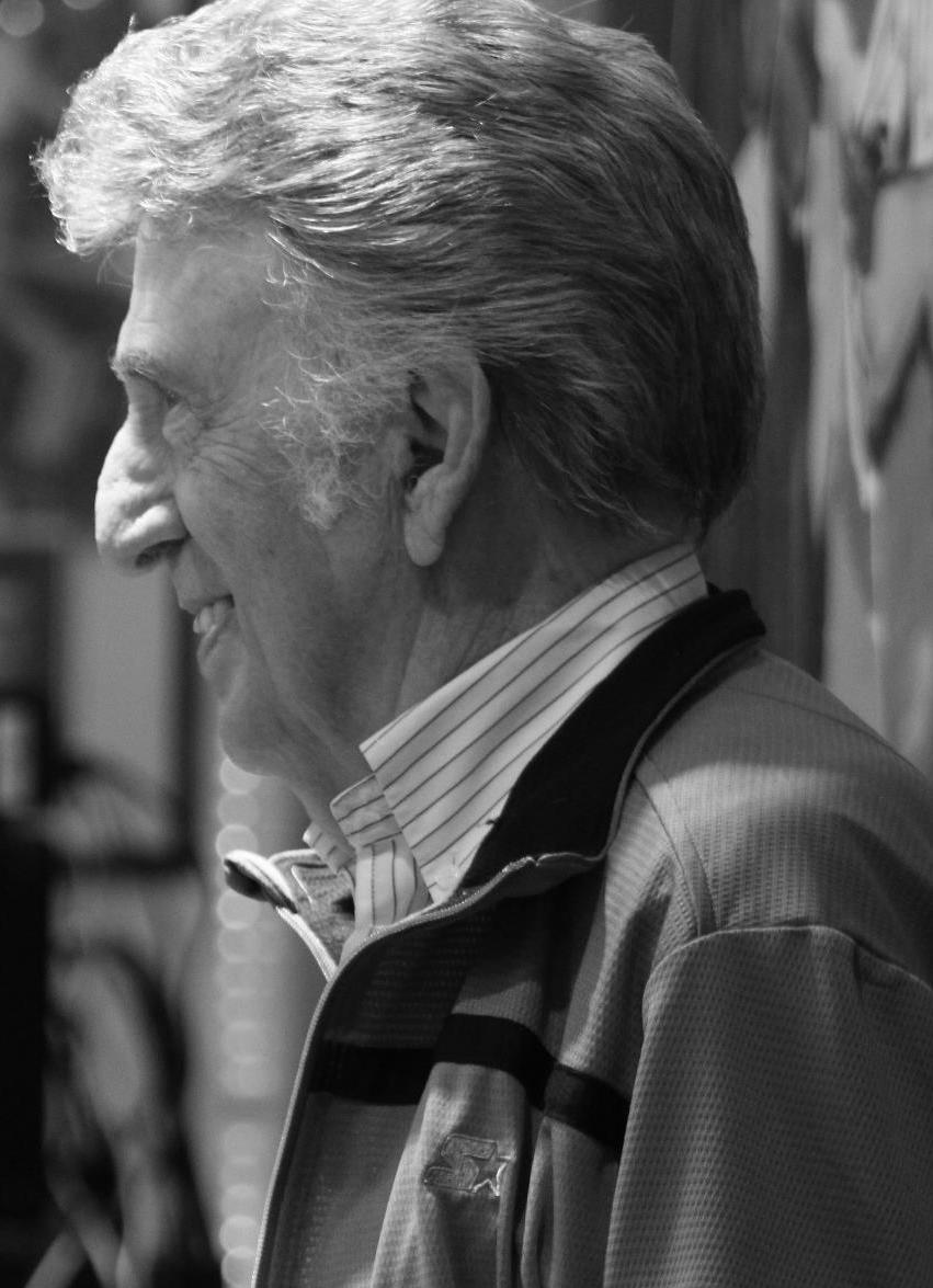 D.J. Fontana performs with Sonny Burgess